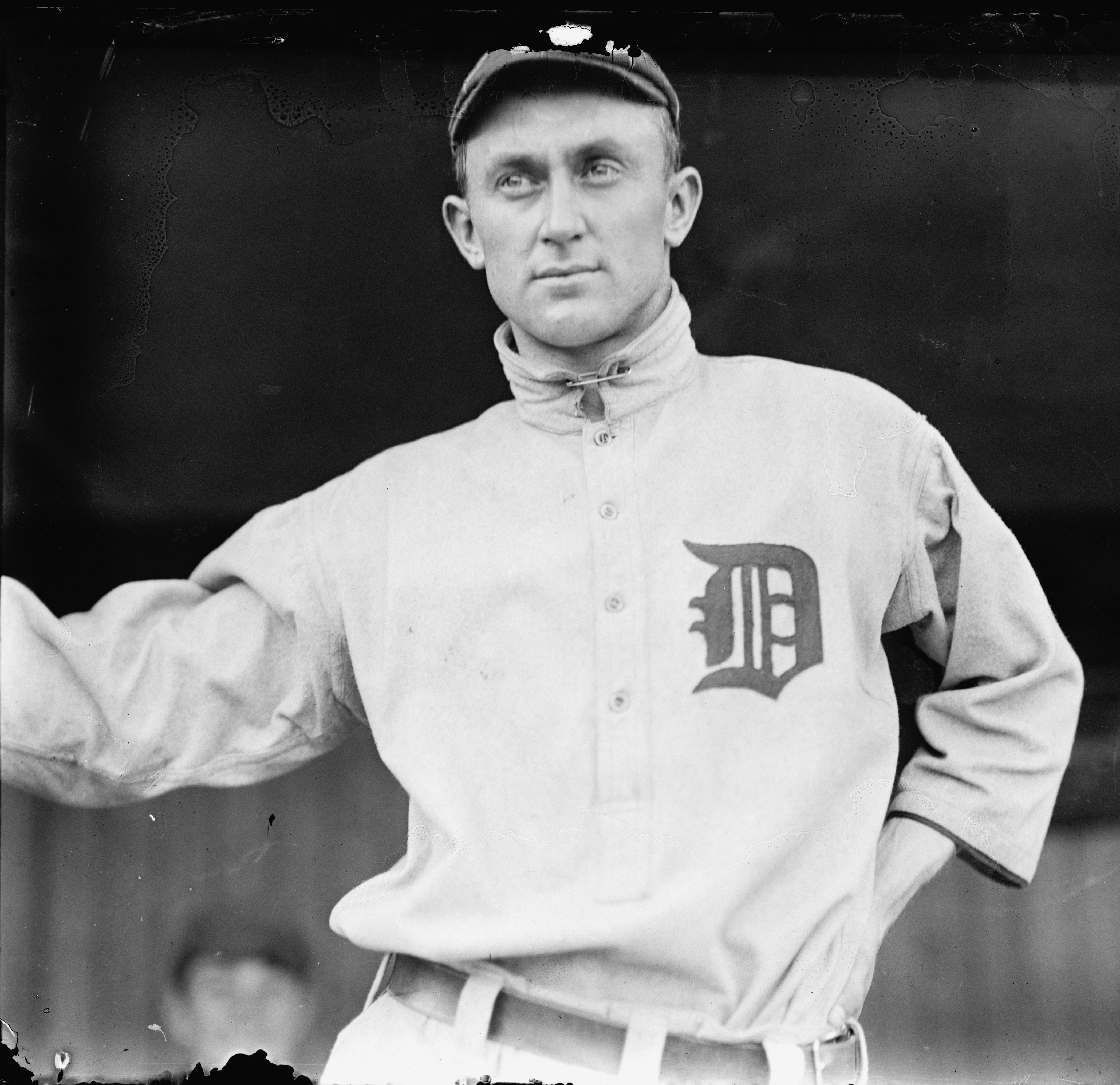 Ty Cobb, 1913. Glass negative; 5×7 in. or smaller. Title from unverified data provided by the National Photo Company on the negative or negative sleeve. Caption fading. Gift to Library of Congress; Herbert A. French; 1947. This glass negative might show streaks and other blemishes resulting from a natural deterioration in the original coatings. Temp. note: Batch four.